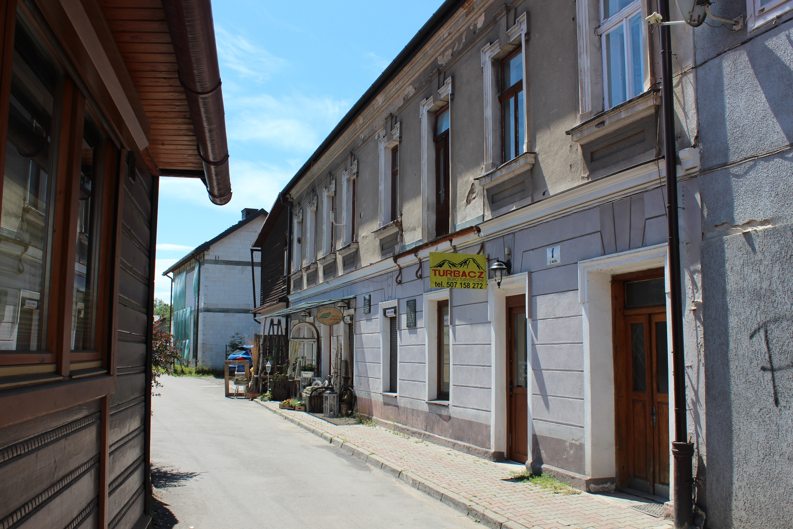 Turbacz Hostel in Rabka-Zdrój